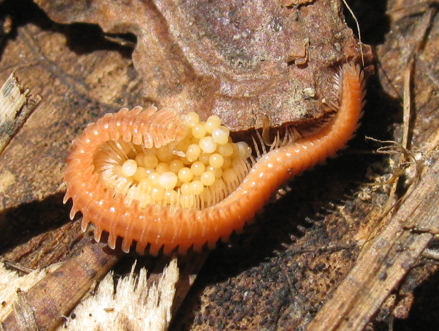 A Brachycbe sp. (Platydesmida, Andrognathidae) guarding eggs. Sierra Nevada range, California